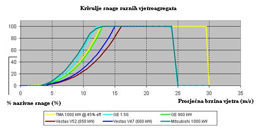 Various wind turbine power curves